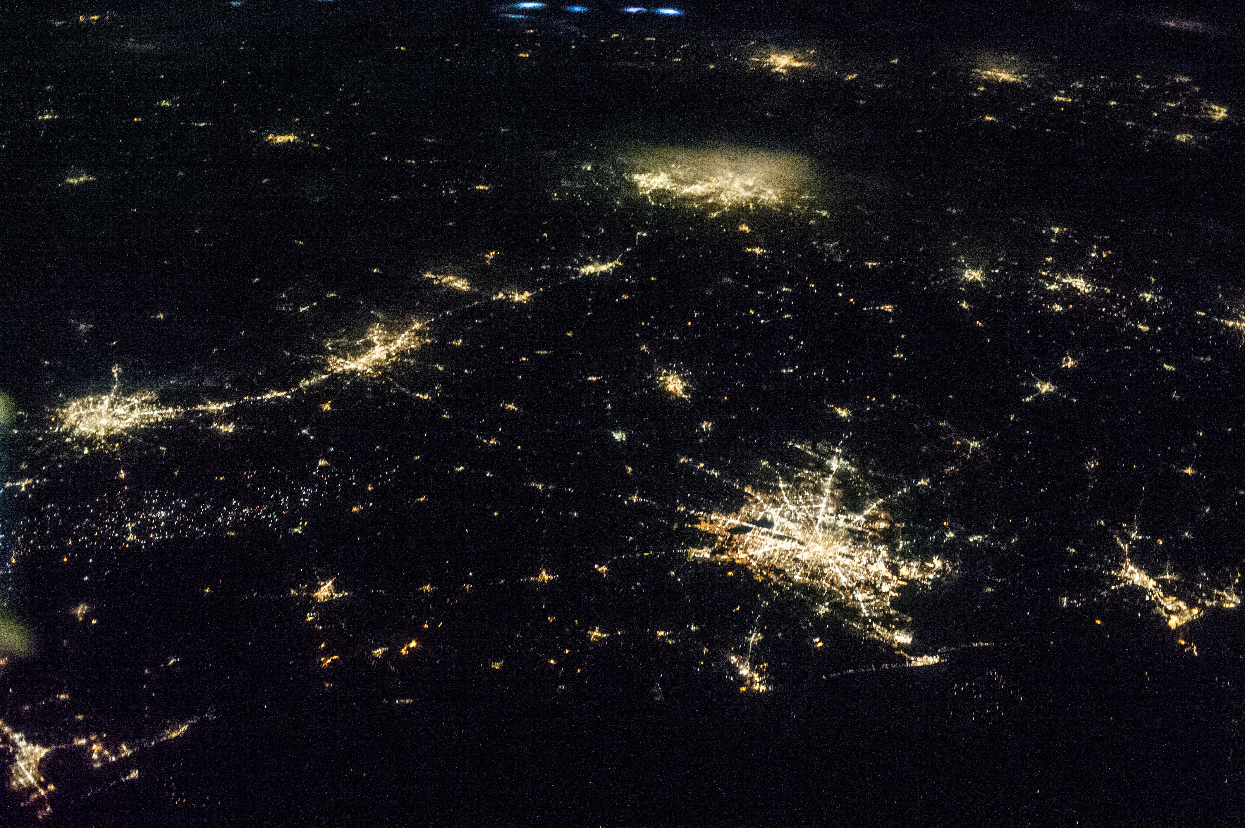 One of the Expedition 36 crew members aboard the International Space Station, some 240 miles above Earth, used a 50mm lens to record this oblique nighttime image of a large part of the nation's second largest state in area, including the four largest metropolitan areas in population. The extent of the metropolitan areas is easily visible at night due to city and highway lights. The largest metro area, Dallas-Fort Worth, often referred to informally as the Metroplex, is the heavily cloud-covered area at the top center of the photo. Neighboring Oklahoma, on the north side of the Red River, less than 100 miles to the north of the Metroplex, appears to be experiencing thunderstorms. The Houston metropolitan area, including the coastal city of Galveston, is at lower right. To the east near the Texas border with Louisiana, the metropolitan area of Beaumont-Port Arthur appears as a smaller blotch of light, also hugging the coast of the Texas Gulf. Moving inland to the left side of the picture one can delineate the San Antonio metro area. The capital city of Austin can be seen to the northeast of San Antonio. This and hundreds of thousands of other Earth photos taken by astronauts and cosmonauts over the past 50 years are available on